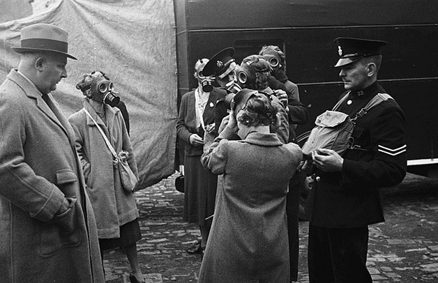 Teitl Cymraeg/Welsh title: Wardeniaid ARP yn profi mygydau nwy yn Nhrallwng Ffotograffydd/Photographer: Geoff Charles (1909-2002) Nodyn/Note: Image shows Sgt. Kinsley Jones fitting, adjusting and explaining gas masks to Welshpool ARP wardens. Capt H. C. Lloyd, the Chief Constable of Montgomeryshire can also be seen (in the light coat with his hands in his pockets. The van in the background was a testing chamber for the masks. Dyddiad/Date: November 2, 1940. Cyfrwng/Medium: Negydd ffilm / Film negative Cyfeiriad/Reference: (gcc02443) Rhif cofnod / Record no.: 3472424 Rhagor o wybodaeth am gasgliad Geoff Charles yn Llyfrgell Genedlaethol Cymru Ceir mwy o ffotograffau o Gymru a'r Gororau adeg yr Ail Ryfel Byd ar wefan .uk More information about the Geoff Charles Collection at the National Library of Wales More photographs of Wales and the English border during the Second World War can be found at .uk